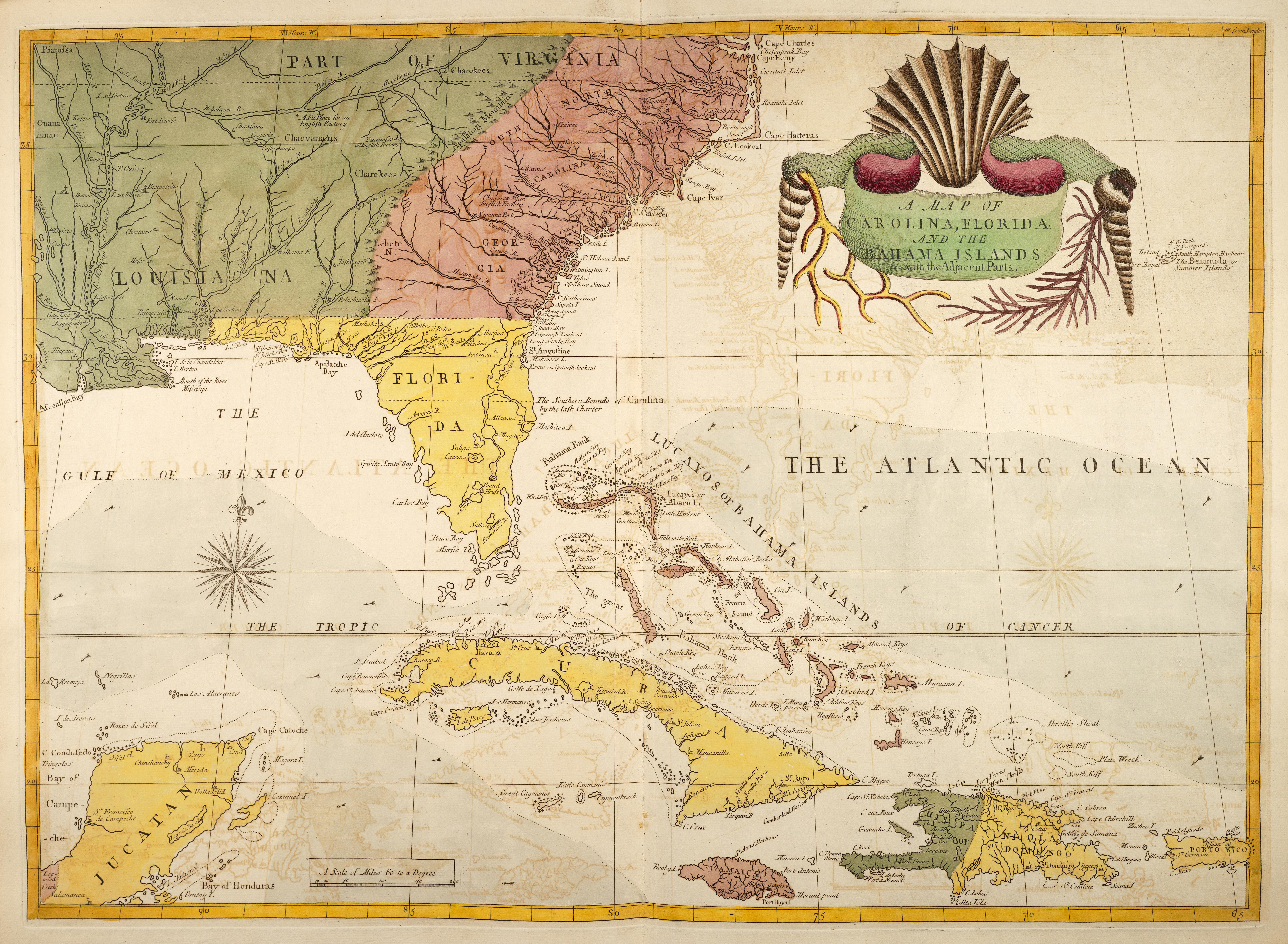 This map appears in Volume 2 of The Natural History of Carolina, Florida and Bahamas by Mark Catesby, George Edwards published in 1754 after Plate No. 100.